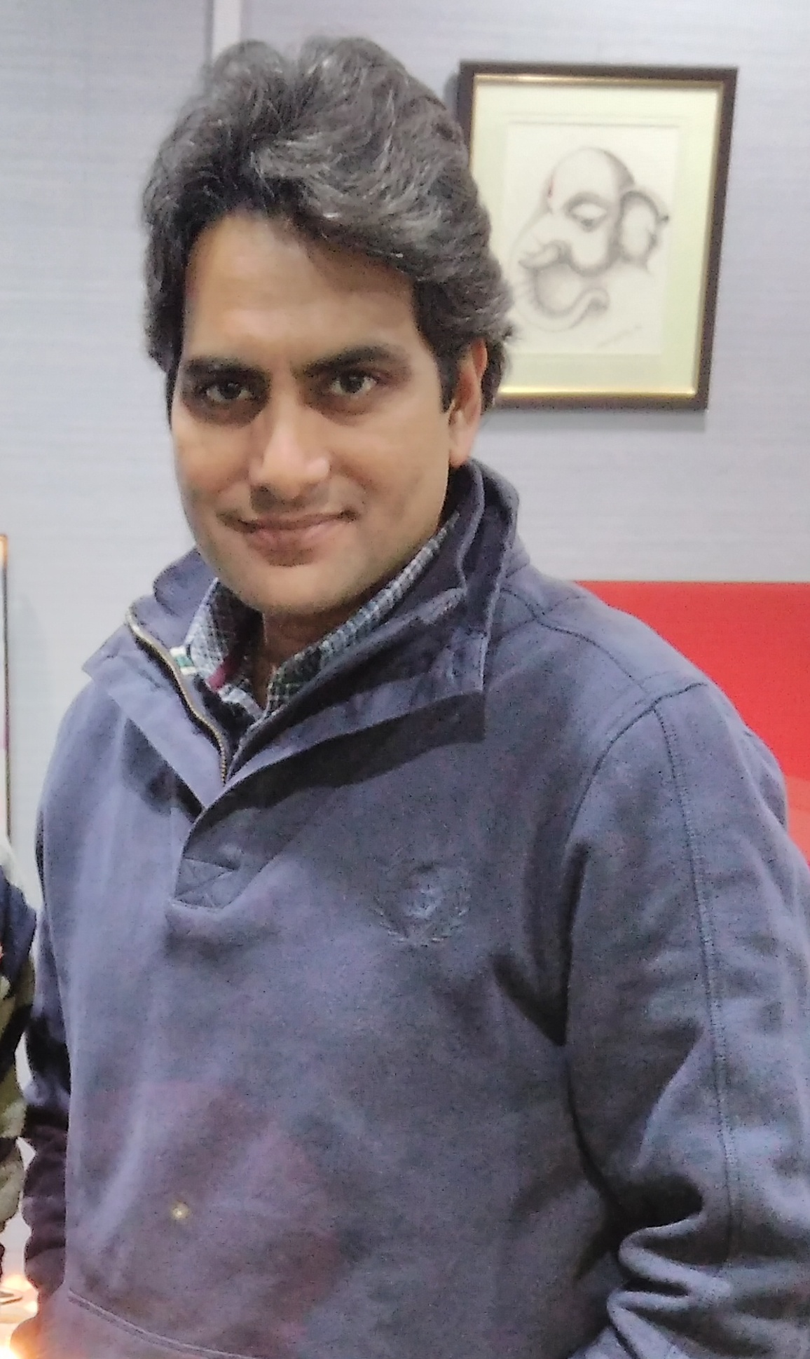 At Zee News office with Sudhir Chaudhary